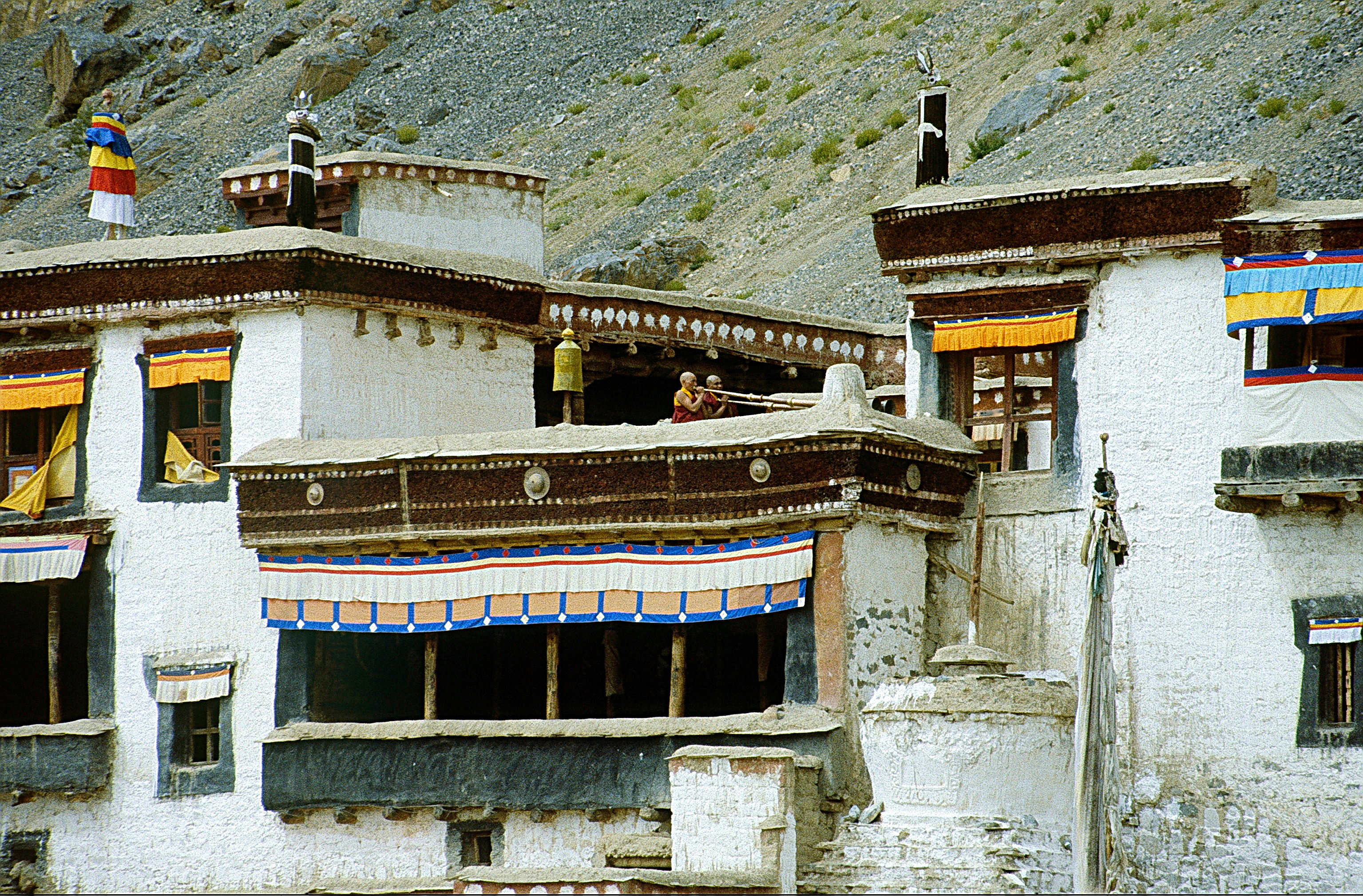 Lingshed gompa in Zankar/Ladakh. You can see too monks playing horns called radongs, because a Rimpoché is arriving.